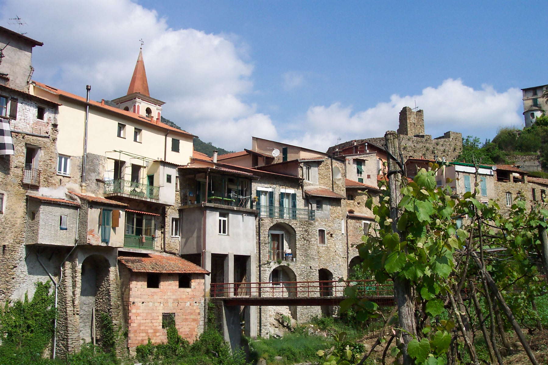 A view of Isolabona.